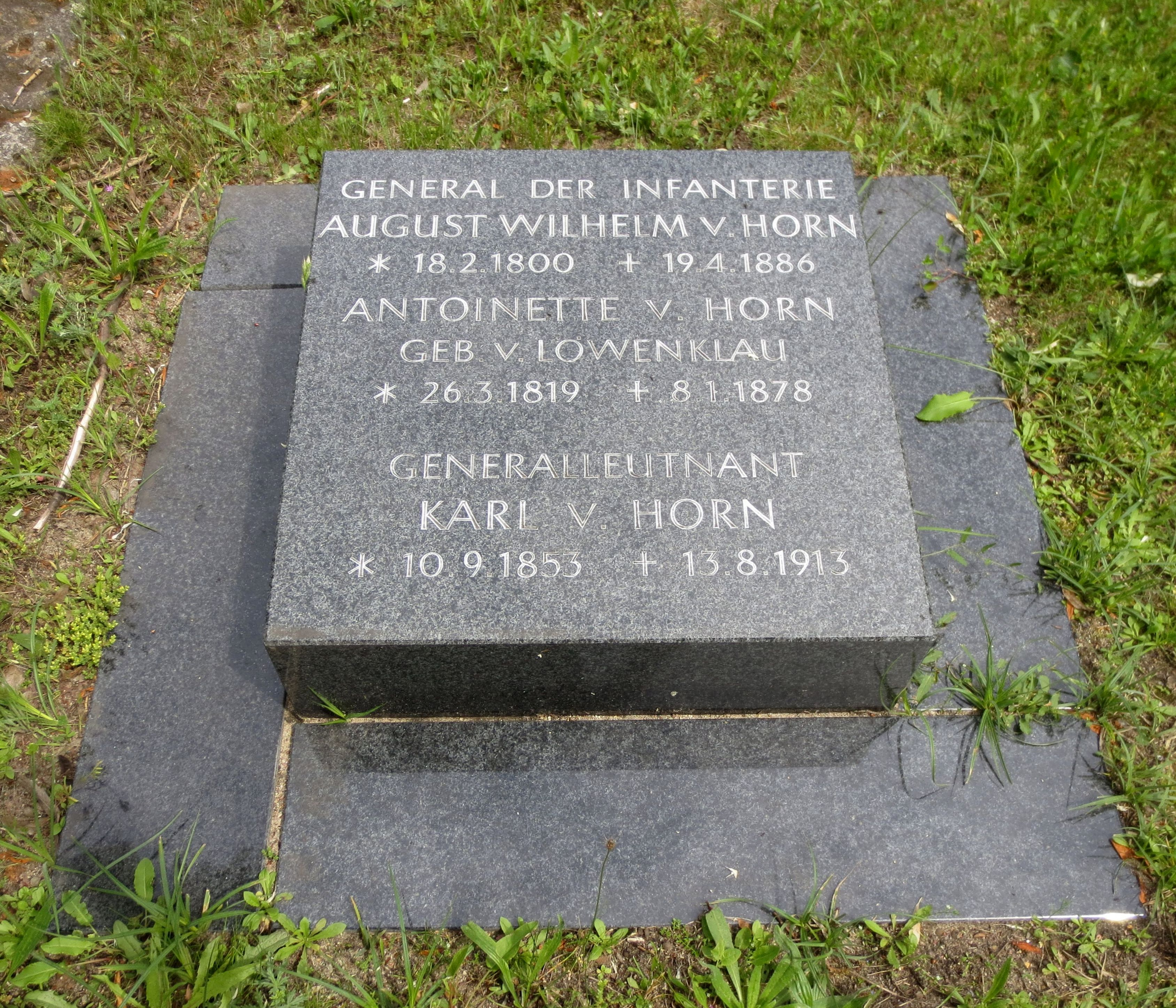 Grave of General of the Infantry August Wilhelm von Horn (1800-1886) and Lieutenant General Karl von Horn (1853-1913) on the Invalidenfriedhof cemetery in Berlin. Restitution stone from 2010.